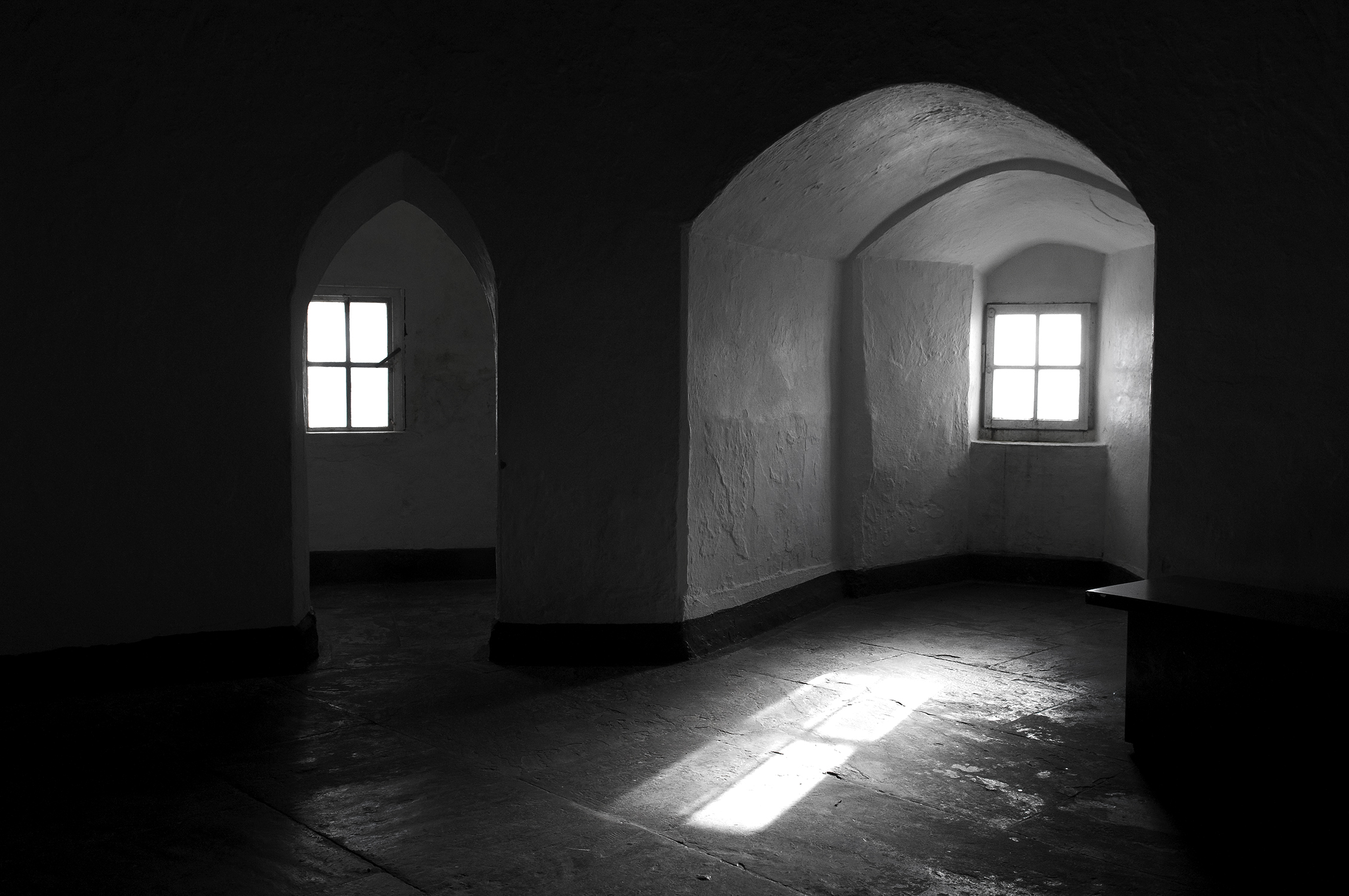 The Hook Lighthouse (also know as Hook Head Lighthouse), situated at the tip of the Hook Peninsula in County Wexford, in Ireland, is one of the oldest lighthouses in the world. Operated by the Commissioners of Irish Lights, the Irish Lighthouse Authority, the Hook marks the eastern entrance to Waterford Harbour